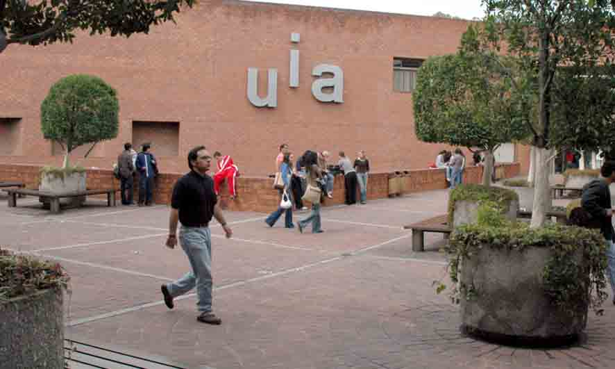 It's a picture from Universidad Iberoamericana in Mexico City